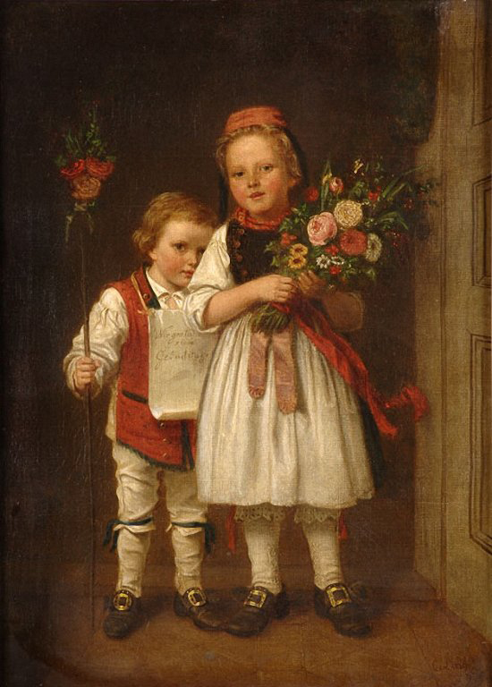 Happy Birthday!